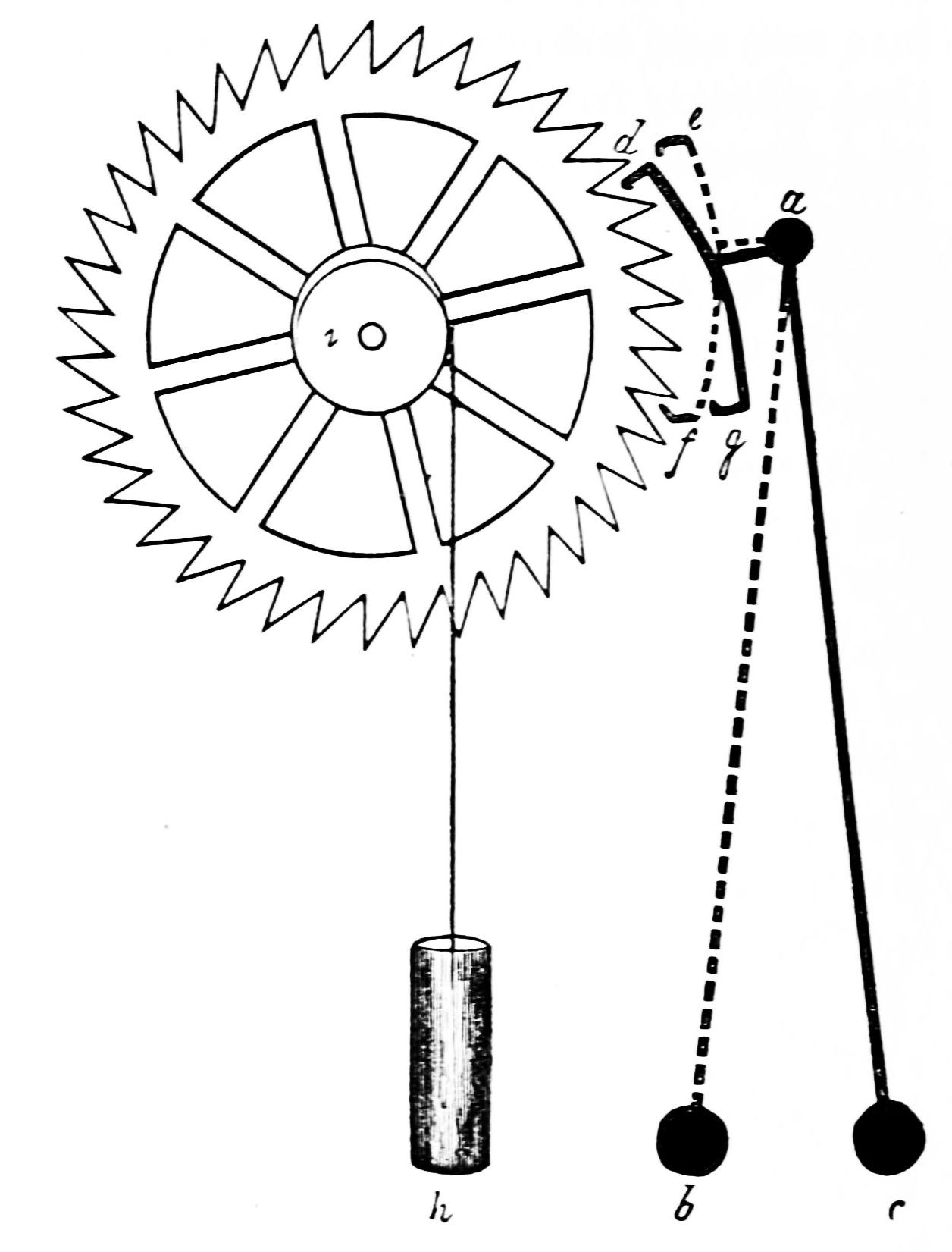 Gravity clock escapement mechanism